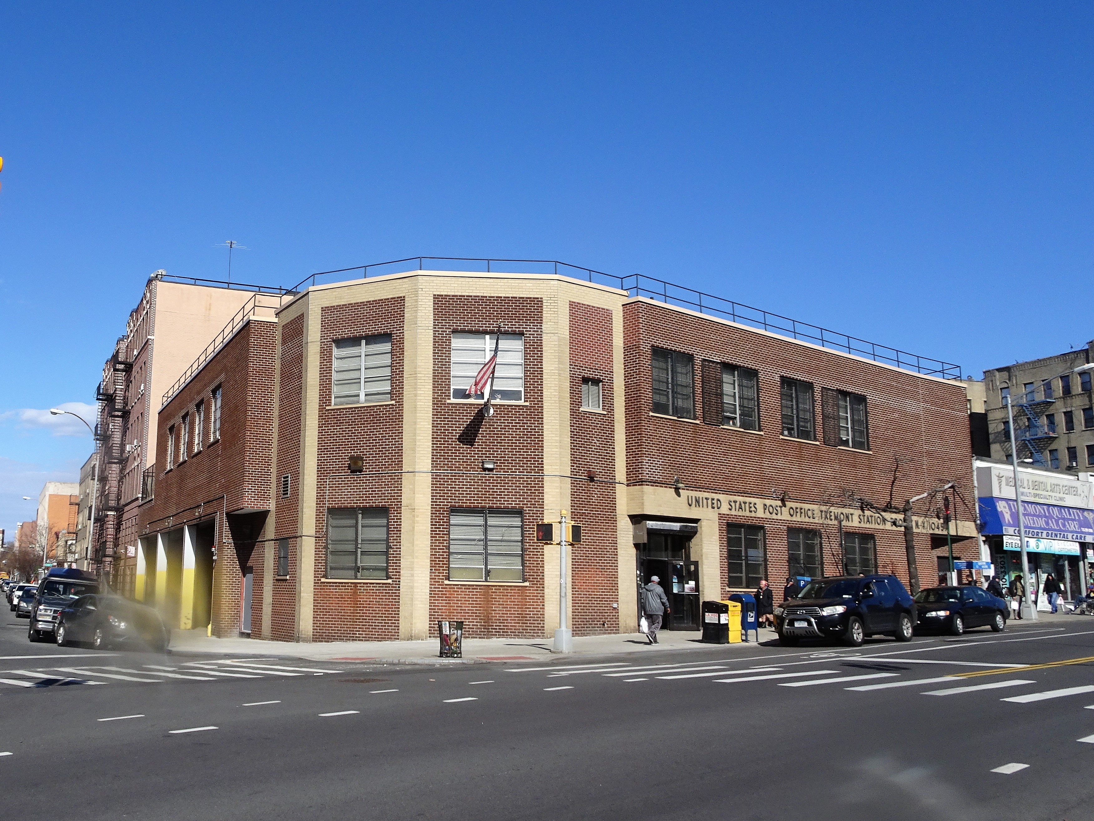 Looking northeast at post office.